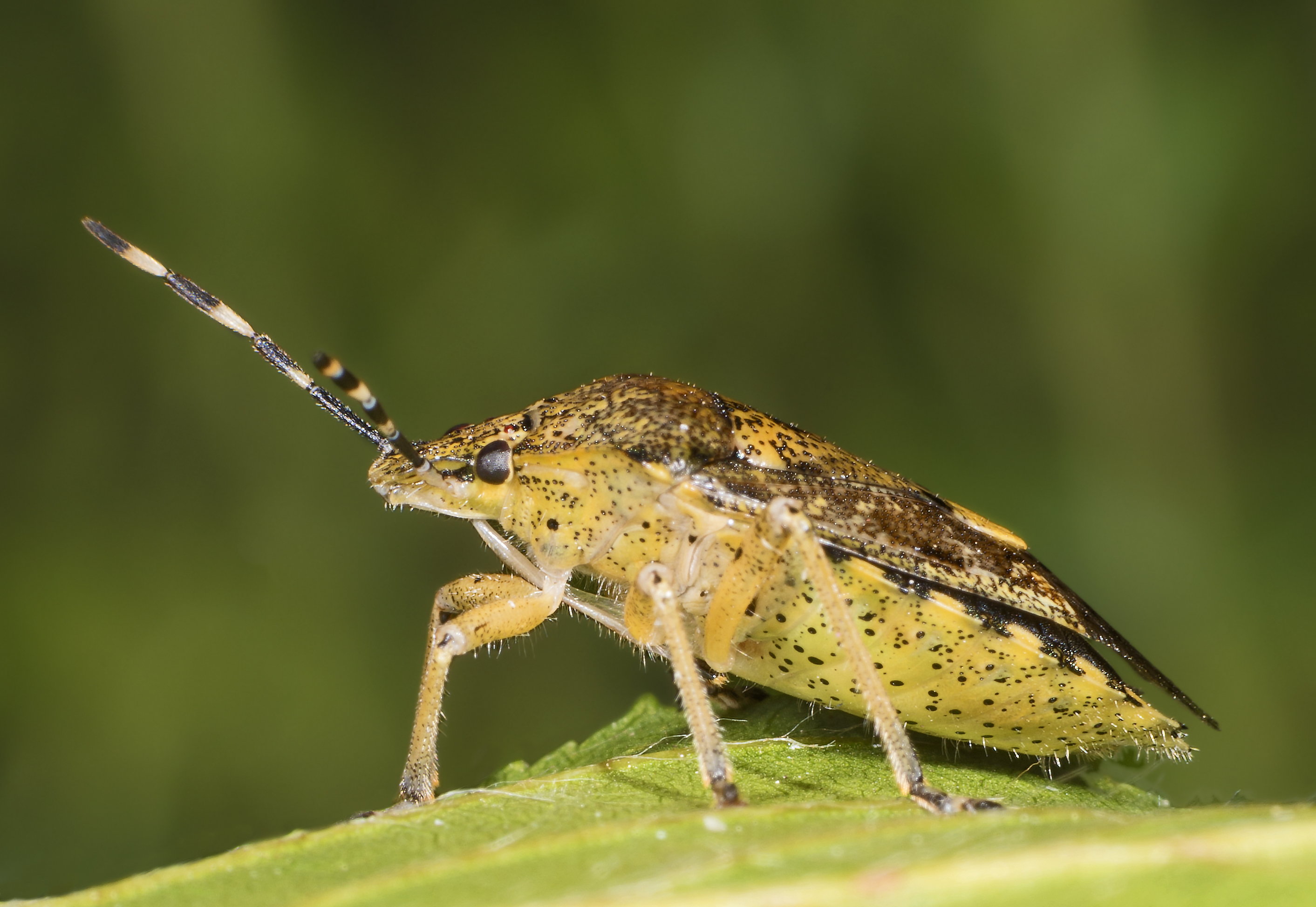 Rhaphigaster nebulosa, profile, showing the typical lower spur of the species.